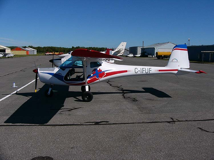 3Xtrim 3X55 Trainer at Peterborough, Ontario